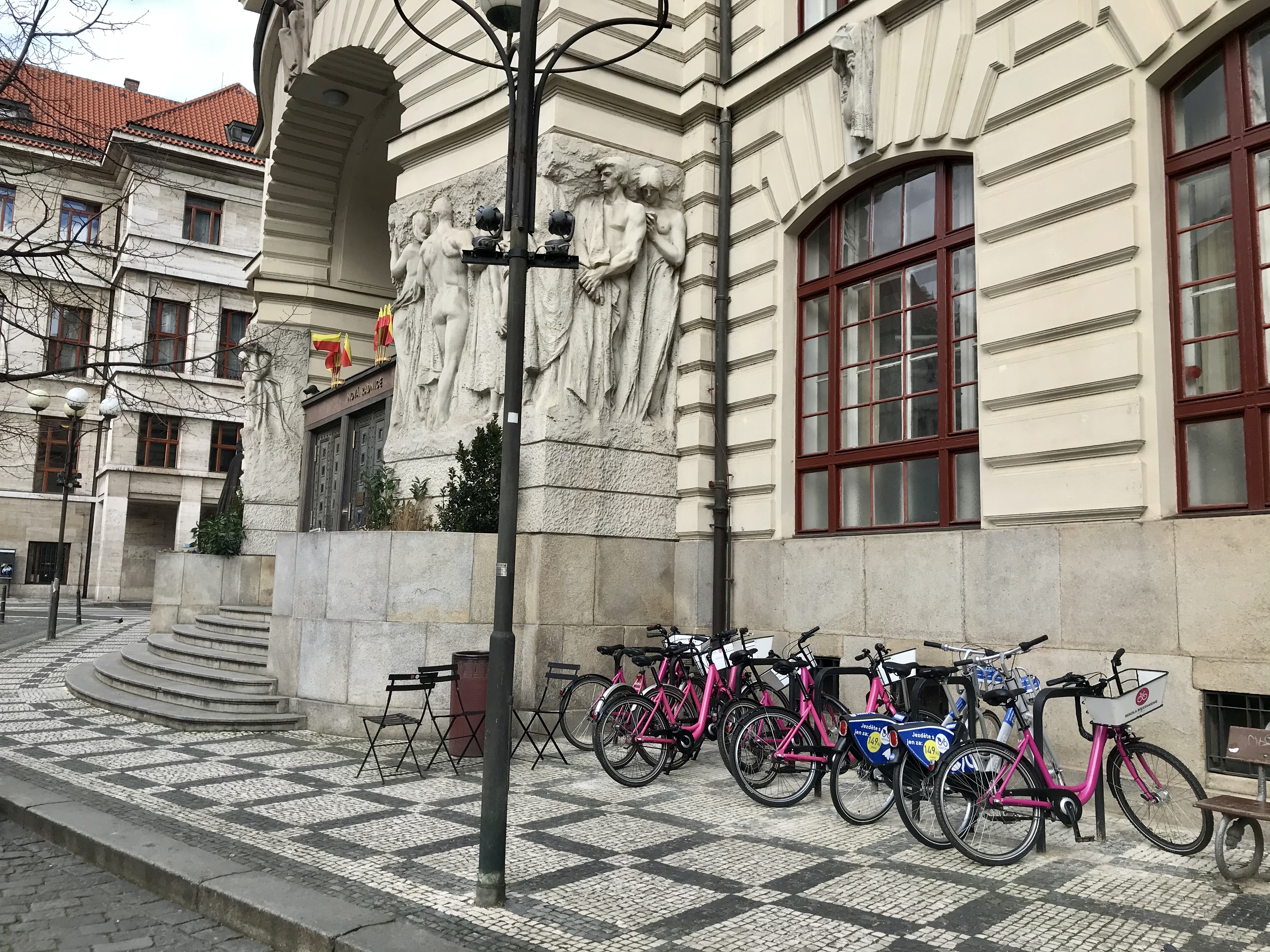 Mariánské náměstí (Mariánské Square) bikestands in front of the building of the New Town Hall with Rekola and Nextbike shared bikes